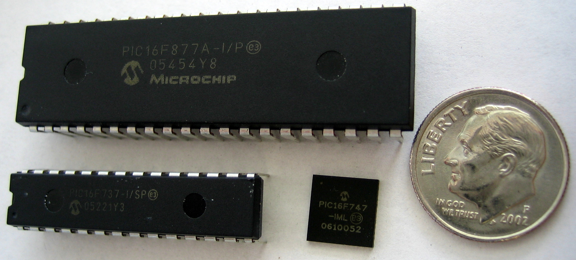 Photo of PIC 16F877A (top), PIC 16F737 (left), PIC 16F747 (middle), and US Dime for scale.